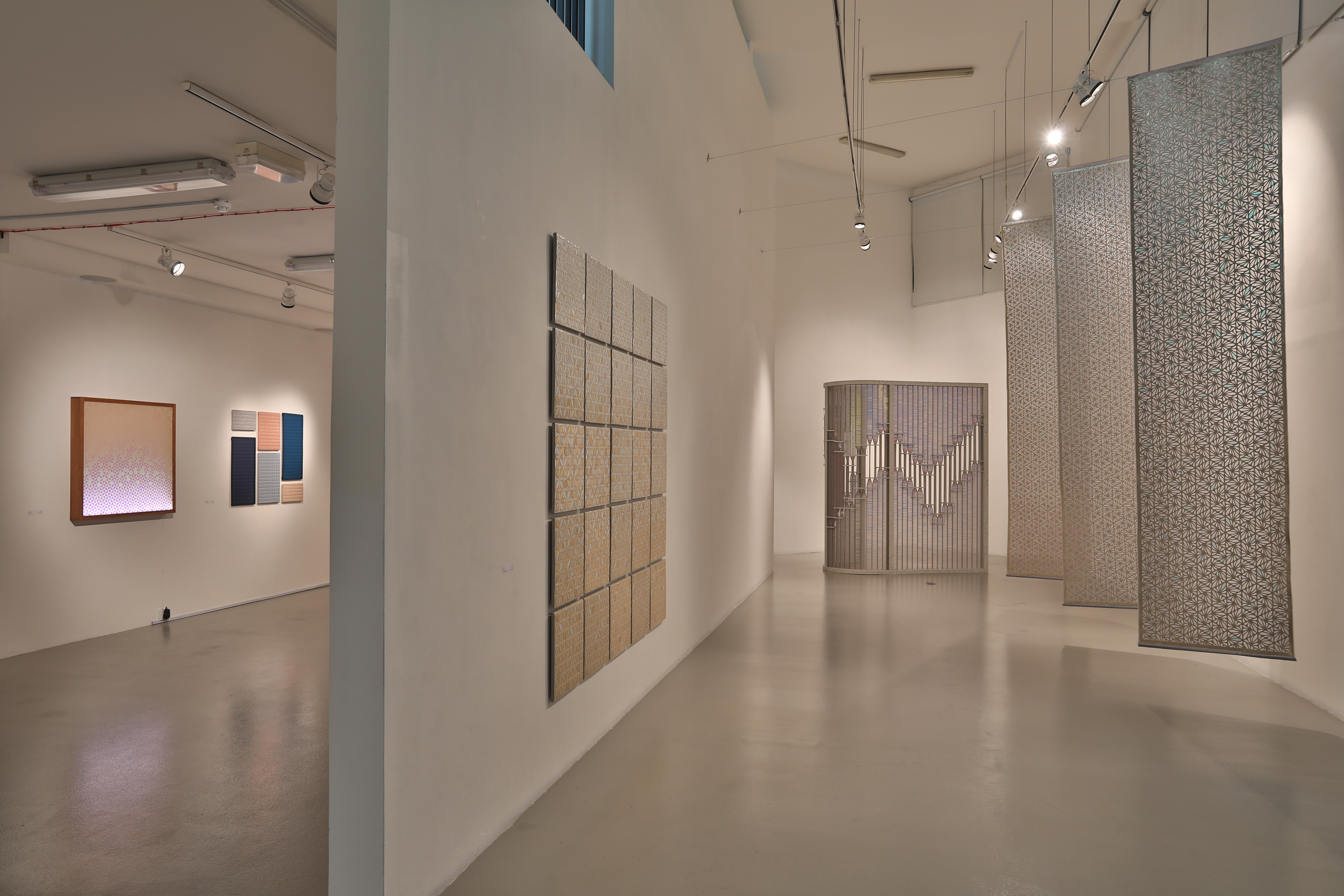 Image of Fay McCaul works in the In Residence exhibition